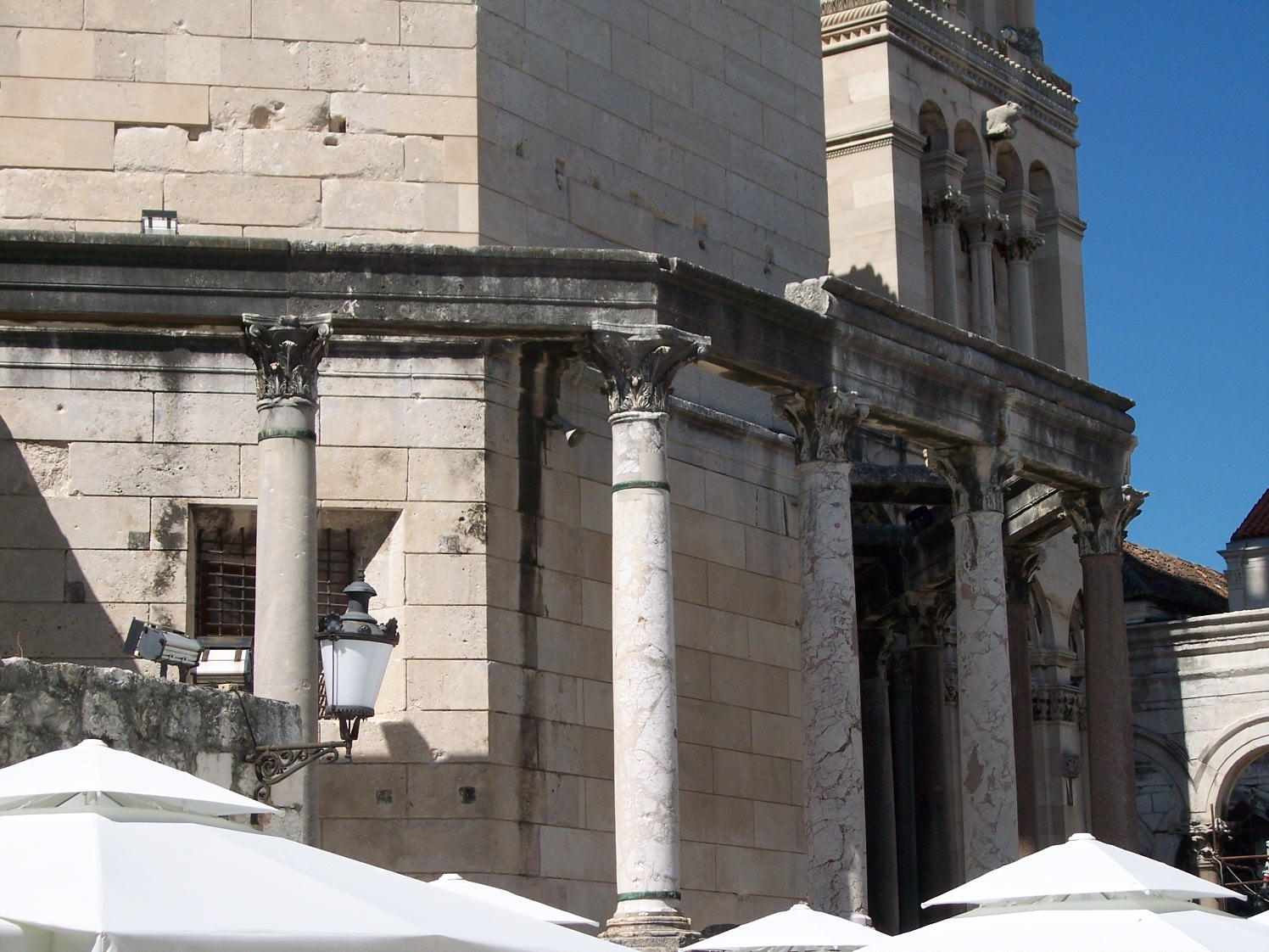 Columbs in Split